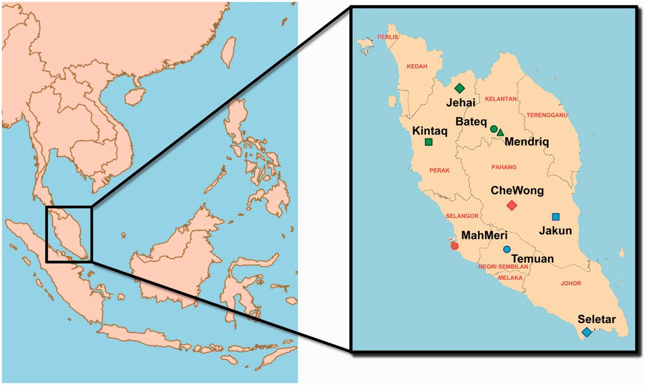 Geographical location of Orang Asli communities recruited in the study. Collected samples are from 169 individuals belonging to Negrito (Jehai, Bateq, Kintaq, and Mendriq subgroups), Senoi (MahMeri and CheWong subgroup), and Proto-Malay (Seletar, Jakun, and Temuan subgroups) groups.